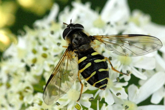 Dasysyrphus venustus from Commanster, Belgian High Ardennes .